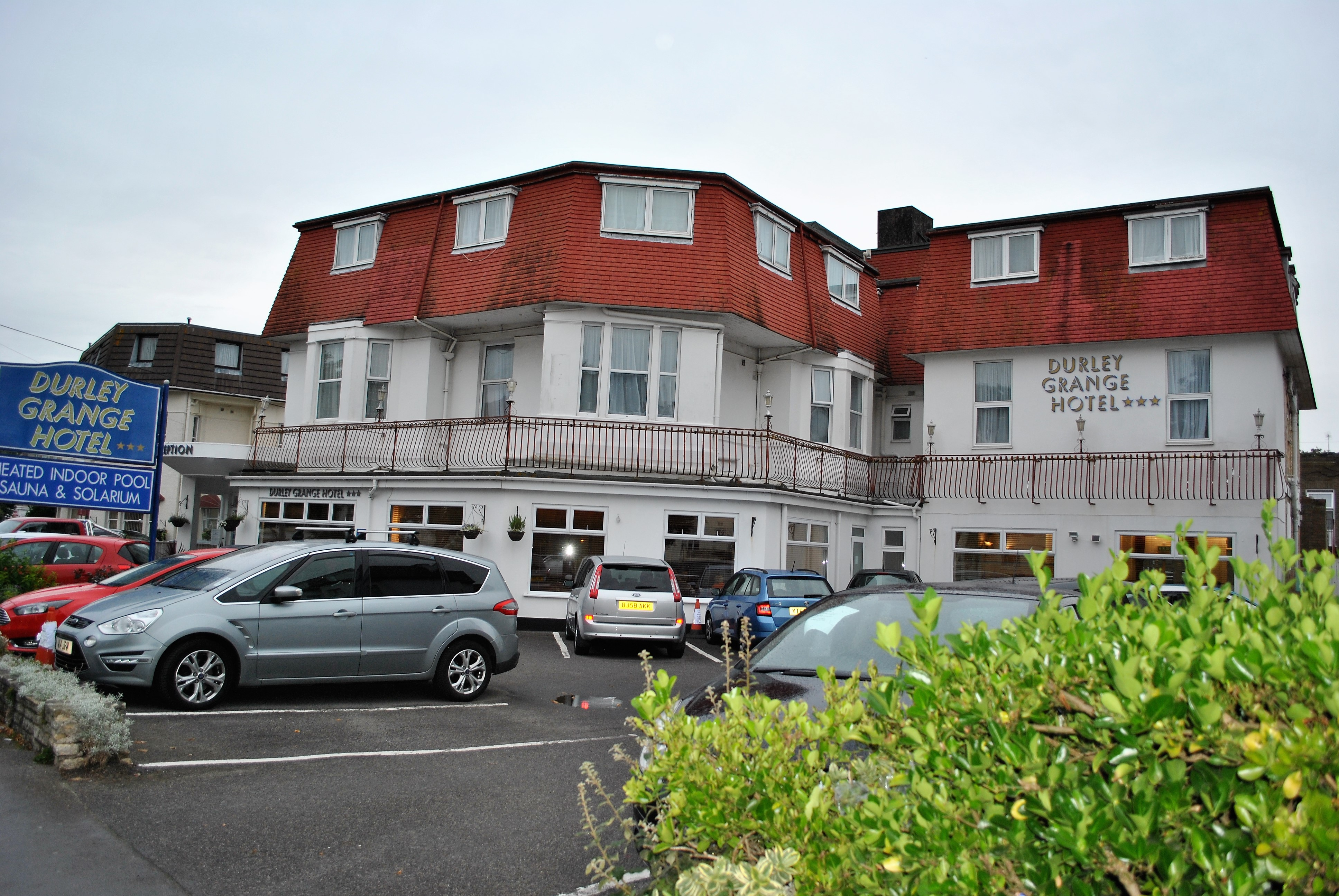 Image originally published in Queer Places: Retracing the Steps of LGBTQ people around the World Authored by Elisa Rolle